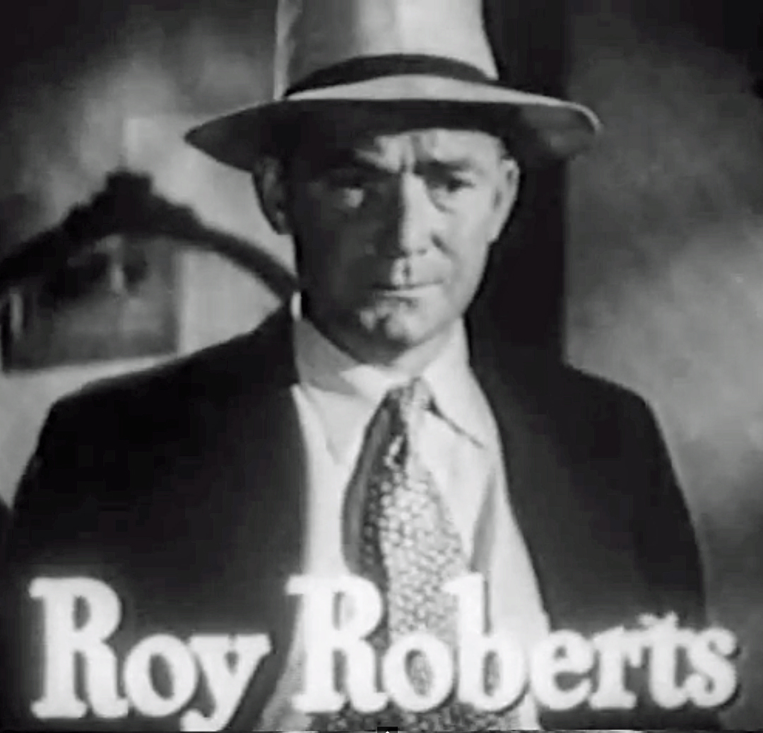 Roy Roberts in trailer for "The Brasher Doubloon" (1947)